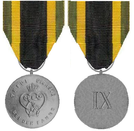 Dienstauszeichnung IIIer Klasse 1913- 1918